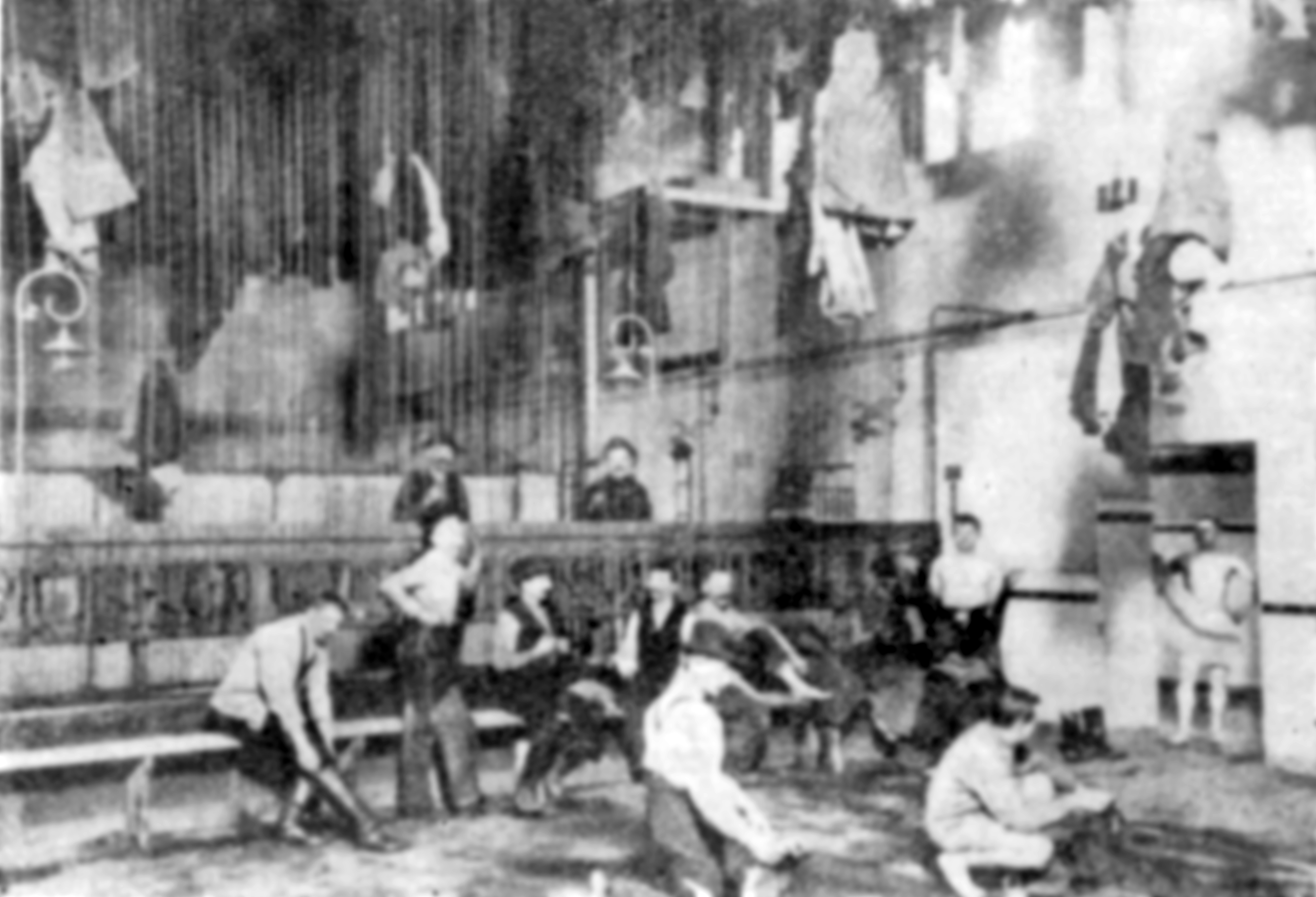 The photograph of chain bath (chain changing room) in Jenny-Otto zinc ore mine in Bytom; now in Poland; mine was closed down during WWI.